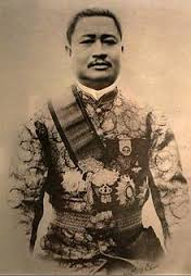 he is popular and monarch